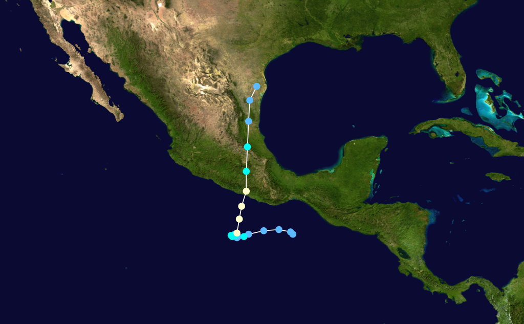 Hurricane Cosme (1989) track. Uses the color scheme from the Saffir-Simpson Hurricane Scale.